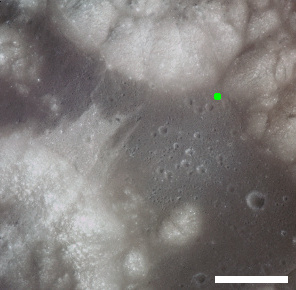 Green dot shows location of Bowen-Apollo, Taurus-Littrow Valley, on the moon. Scale bar at lower right is 5 km.